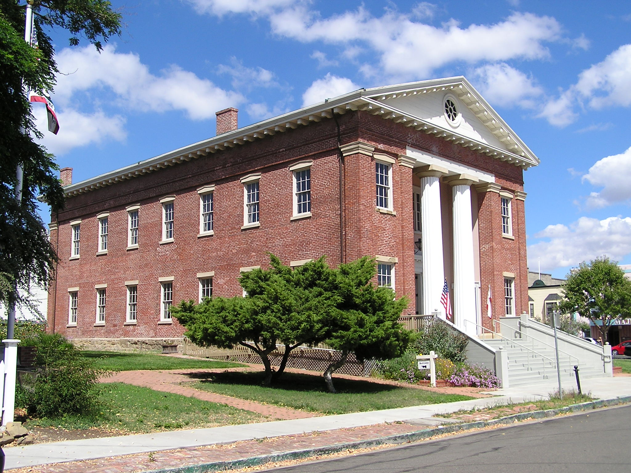 Exterior of the former California State Capitol Building in Benicia, CA.